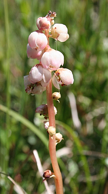 Common Wintergreen (Pyrola minor) This can be distinguished from other wintergreens by its pale pink flowers, and the fact that the style does not protrude from the flower.